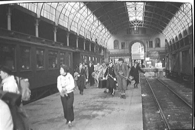 Oslo Østbanestasjon, Norway.